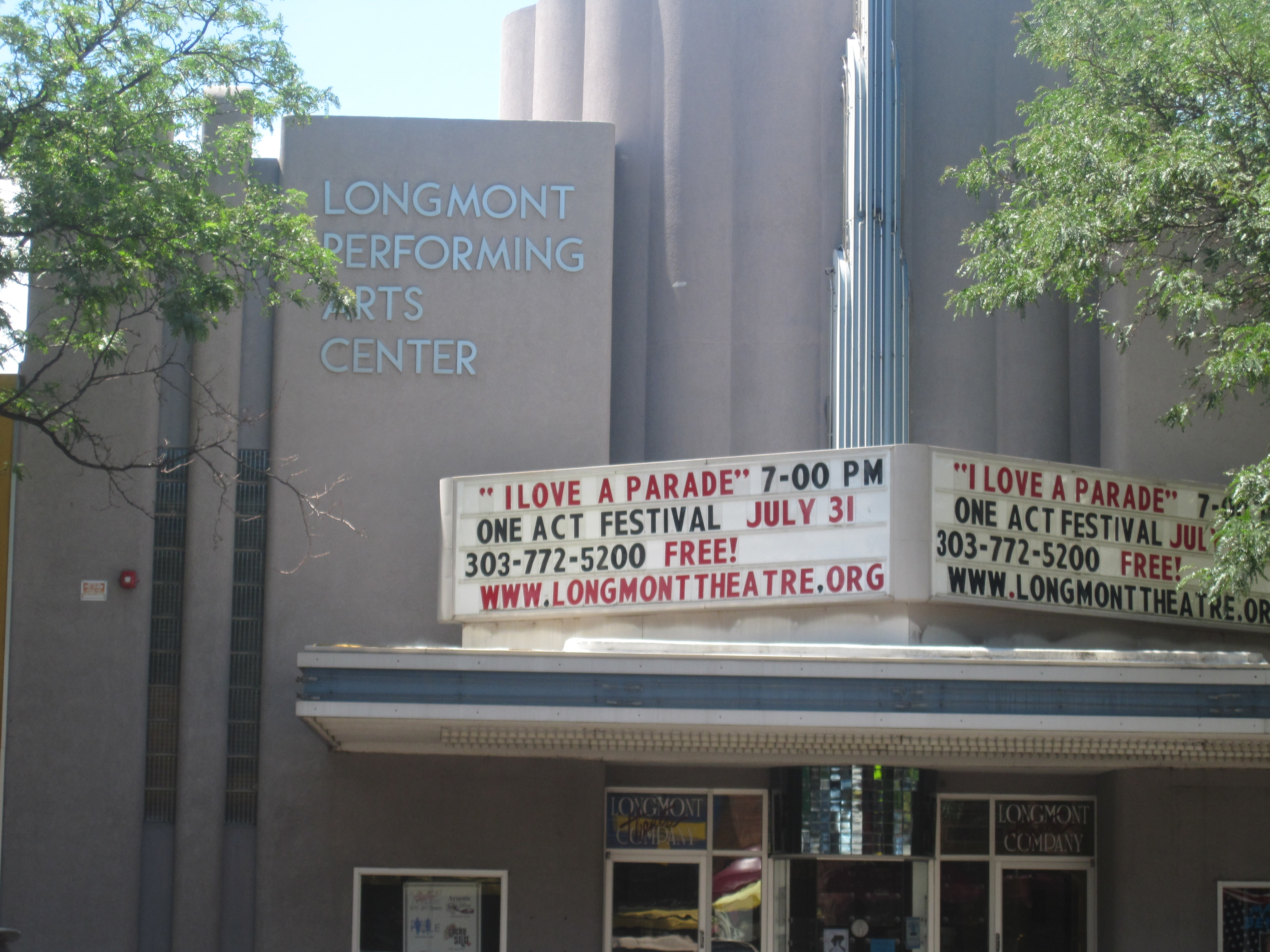 I took photo with Canon camera in Longmont, CO.